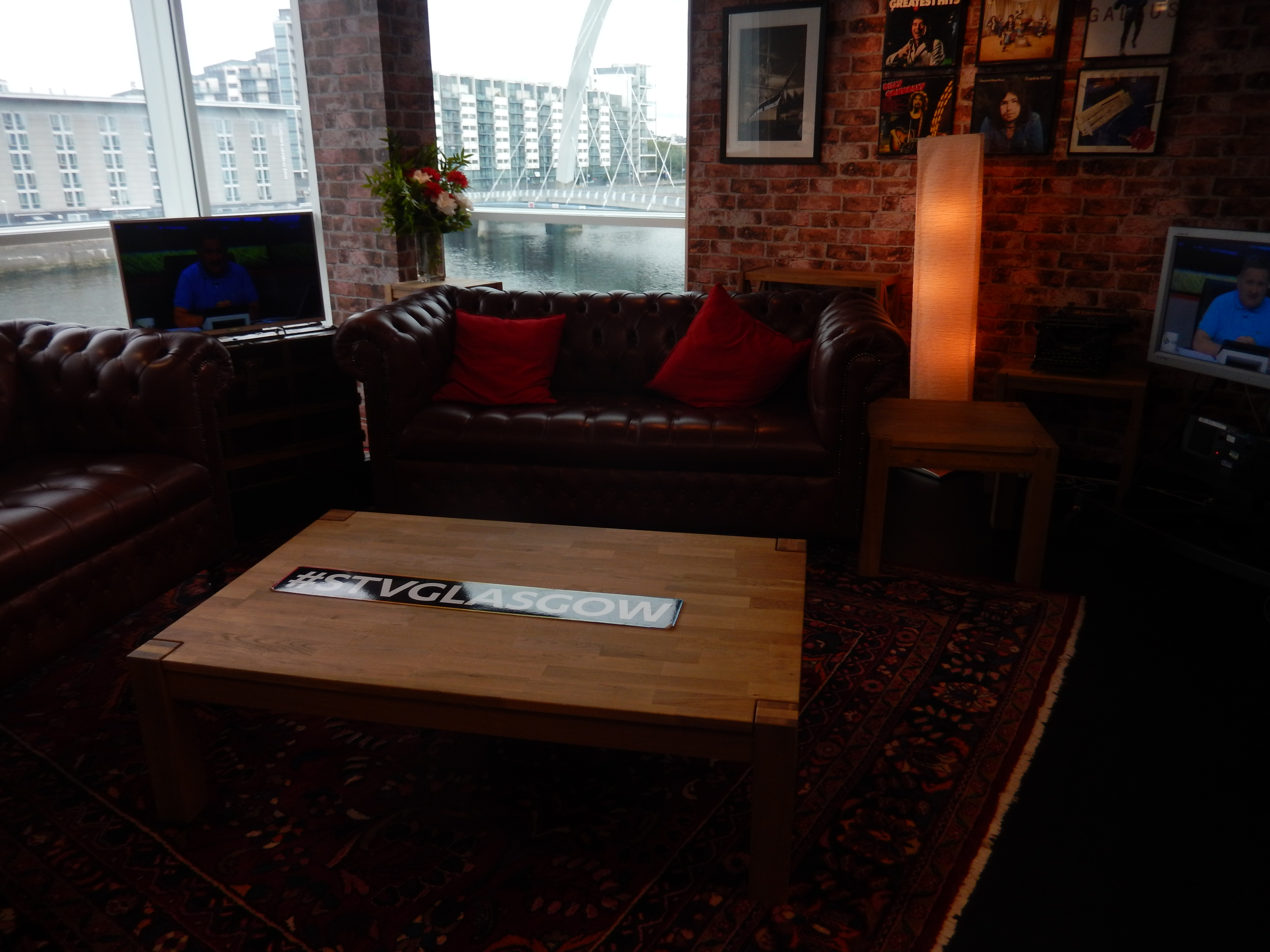 The Riverside Show set at STV Pacific Quay, Glasgow. The Riverside Show is shown on STV Glasgow. Photo taken on a Doors Open Day Tour of the studios.